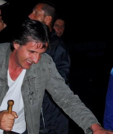 Károly Holecz (Karči Holec) Slovene (Prekmurian) writer and journalist from Orfalu in Vendvidék